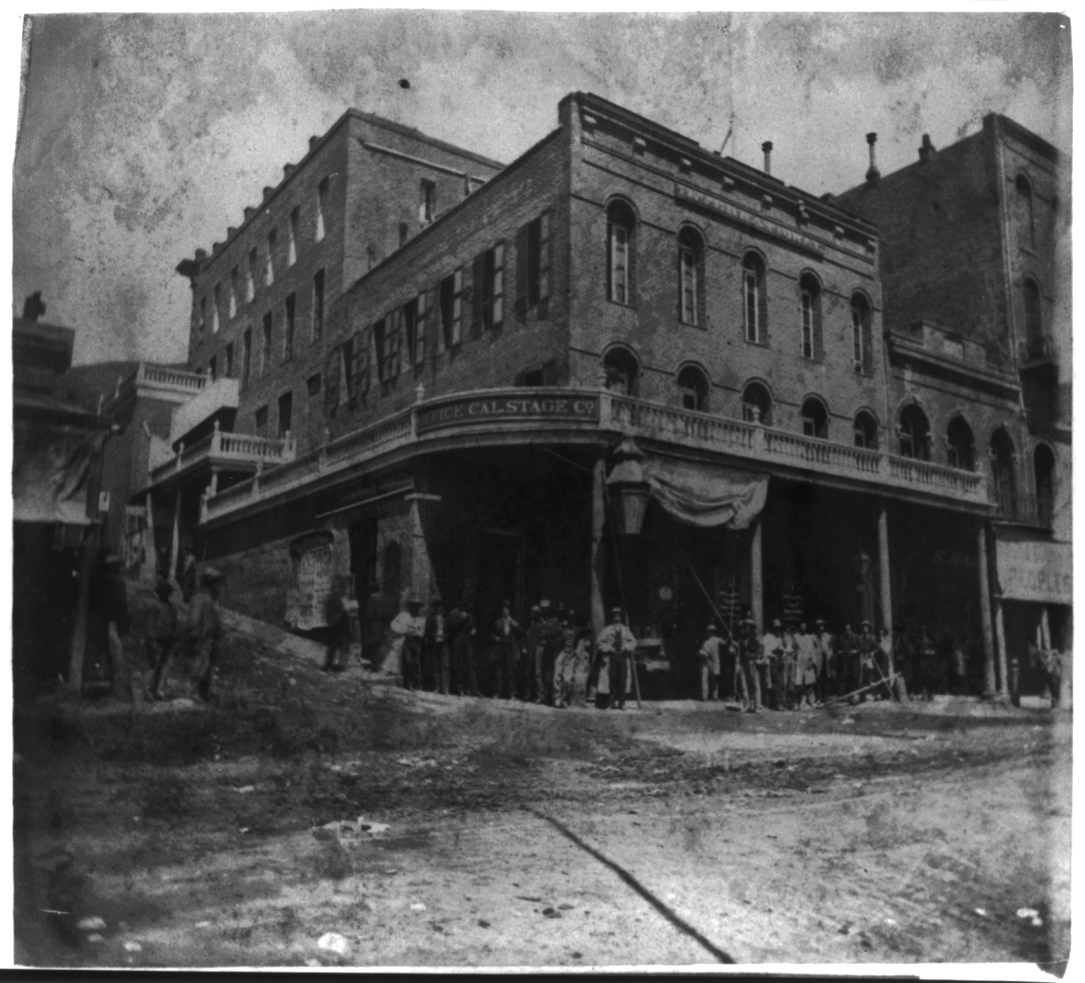 Title: International Hotel, C Street, Virginia City Abstract/medium: 1 photographic print : half stereograph, albumen.